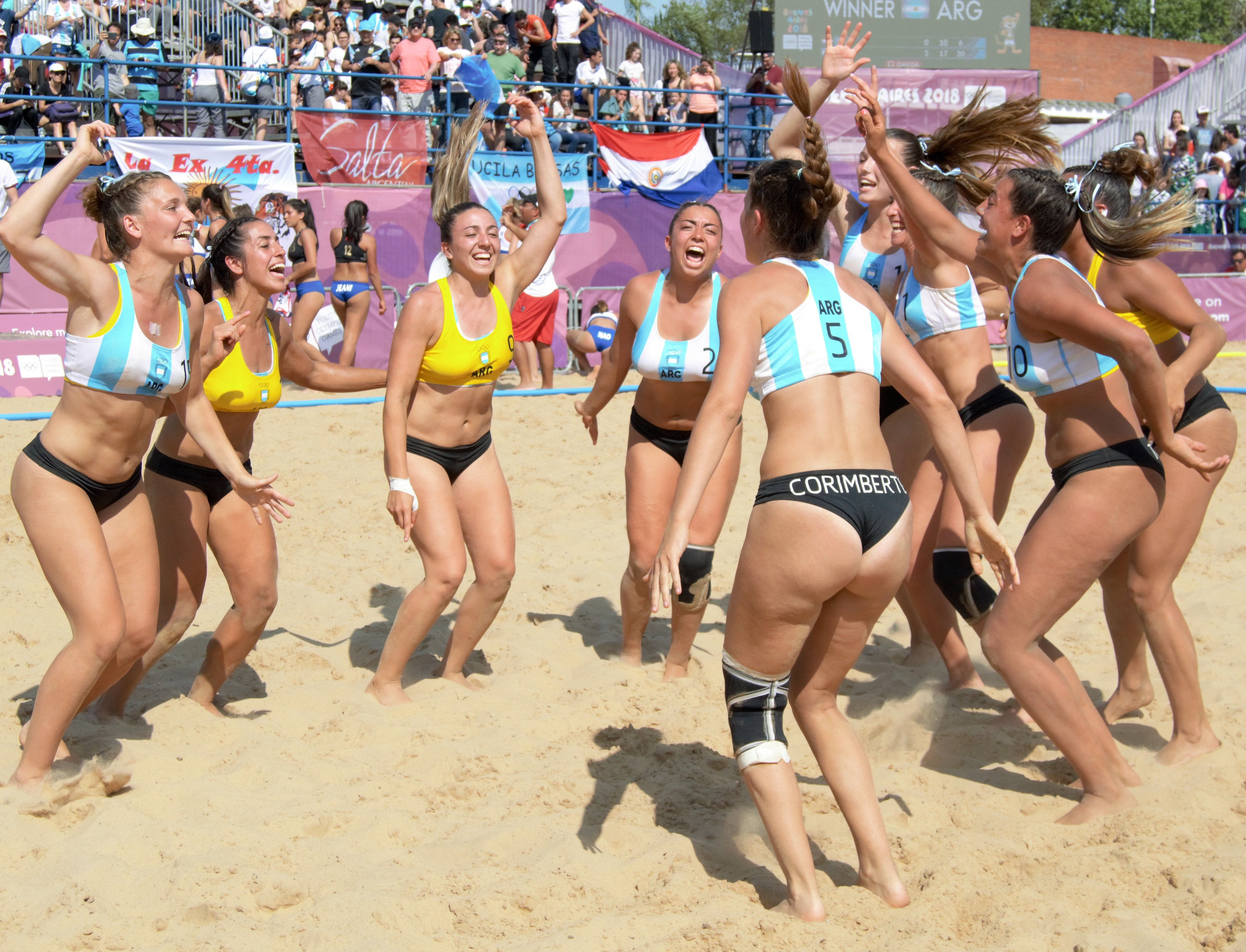 Beach handball match between Argentina and Paraguay at the 2018 Summer Youth Olympics.